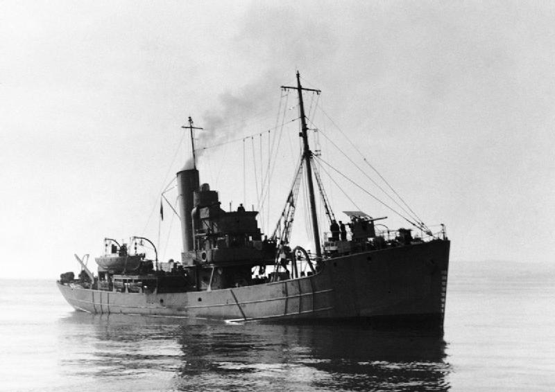 HMS Sir Galahad - official photograph